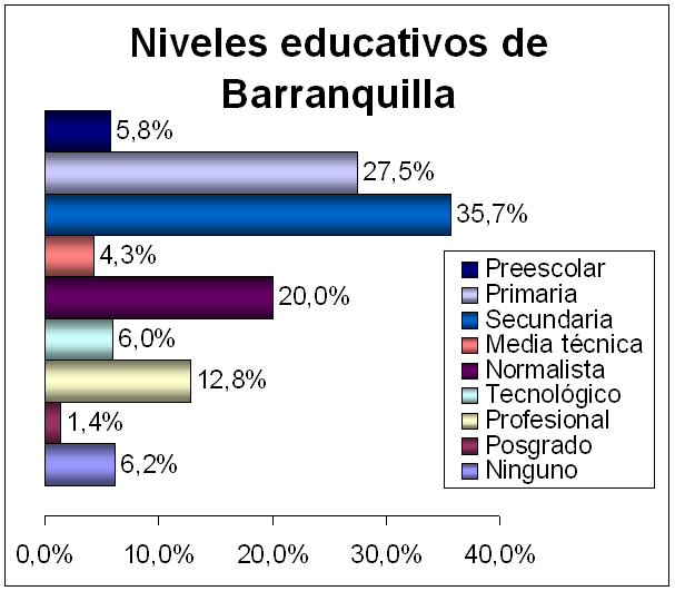 Barranquilla - Educational levels